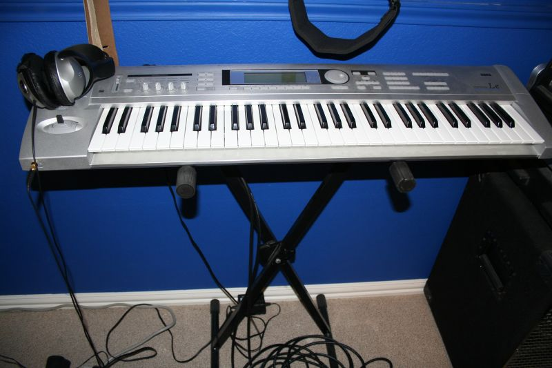 Music workstation synthesizer Korg Triton Le.